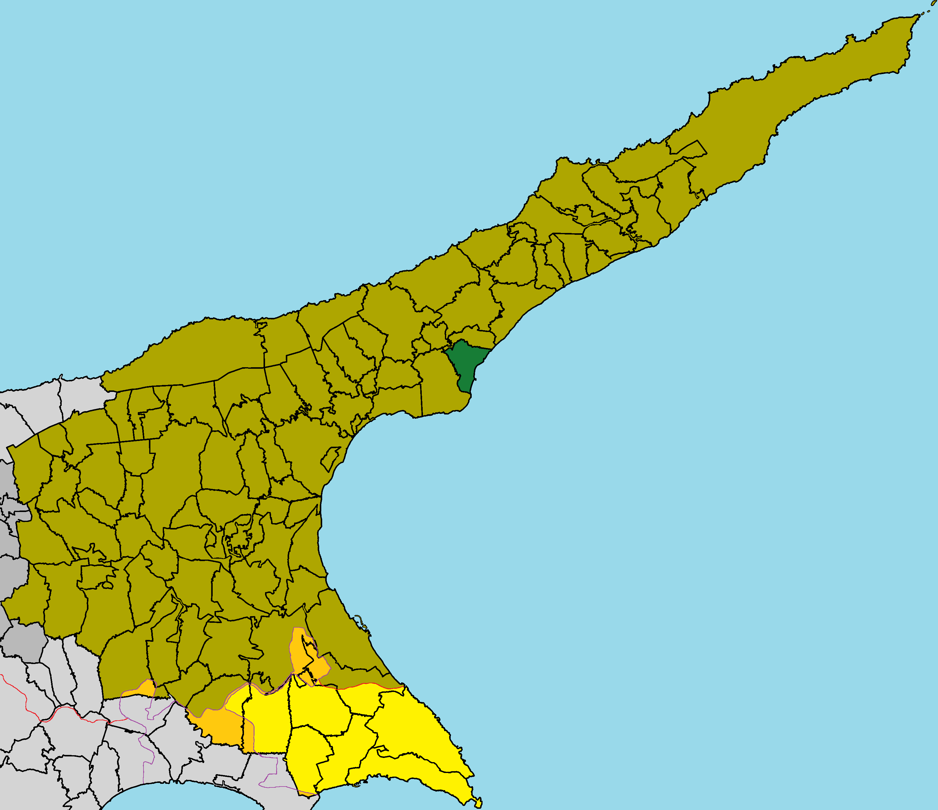 Vokolida in Famagusta District (de jure).